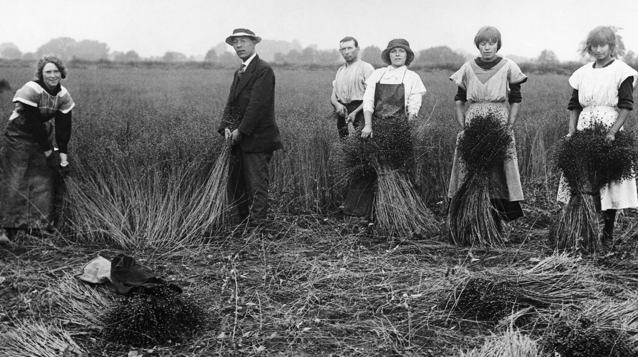 The Womens Land Army in Britain during the First World War Flax pulling at Selby, Yorkshire: Scottish, English, Irish and Belgian girl farm workers, and a Japanese student at work in the fields.